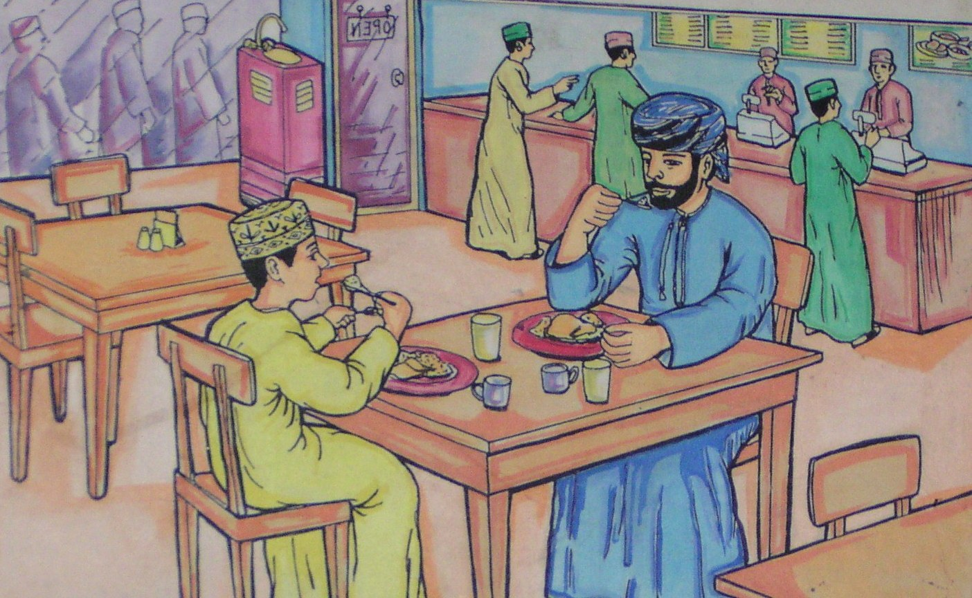 Omanis in a restaurant